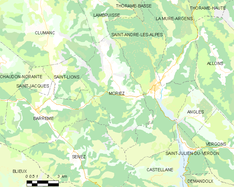 Map commune FR insee code 04133.png Légende